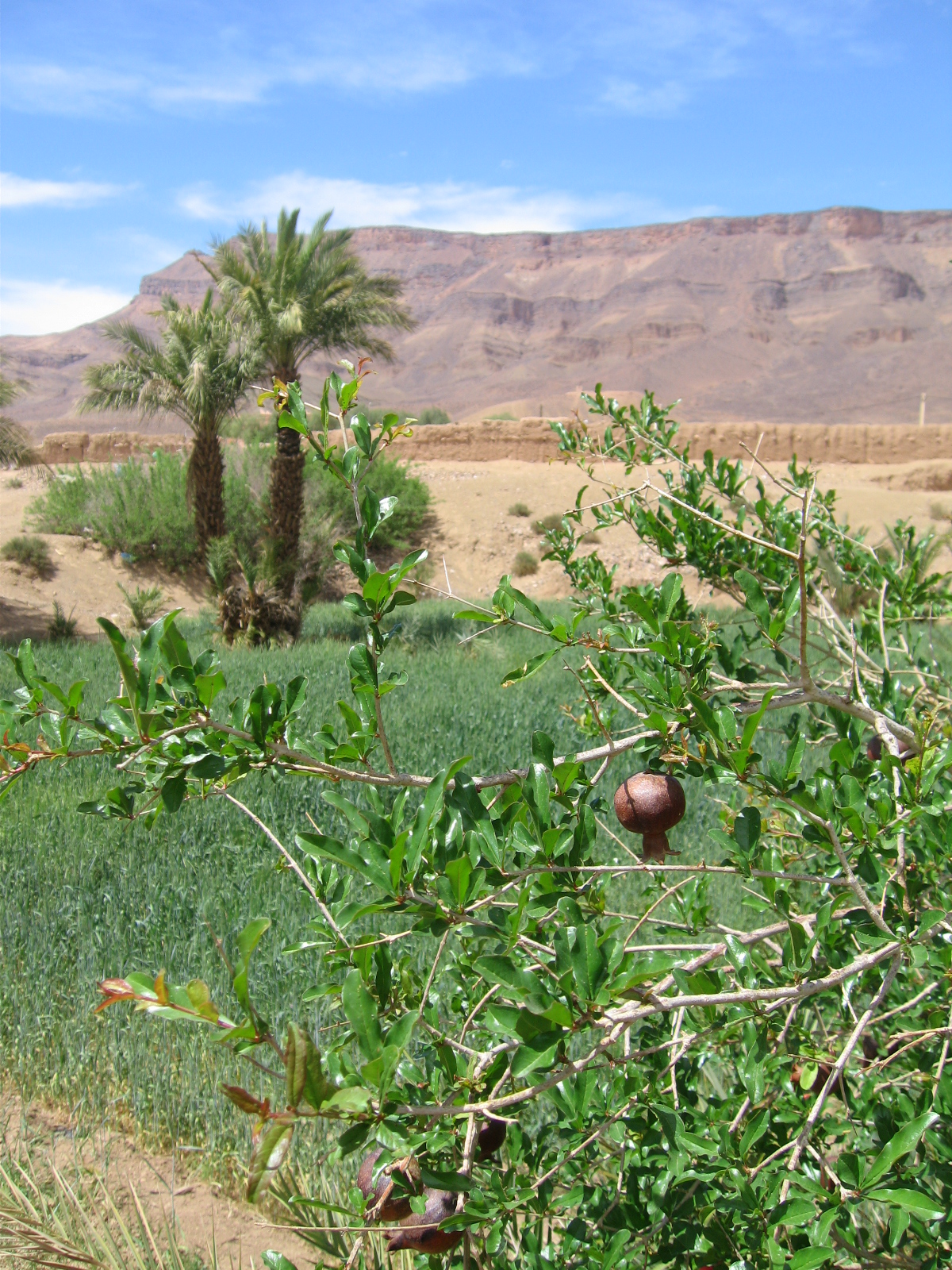 A pomegranate shrub growing in the Draa River valley of southern Morocco.